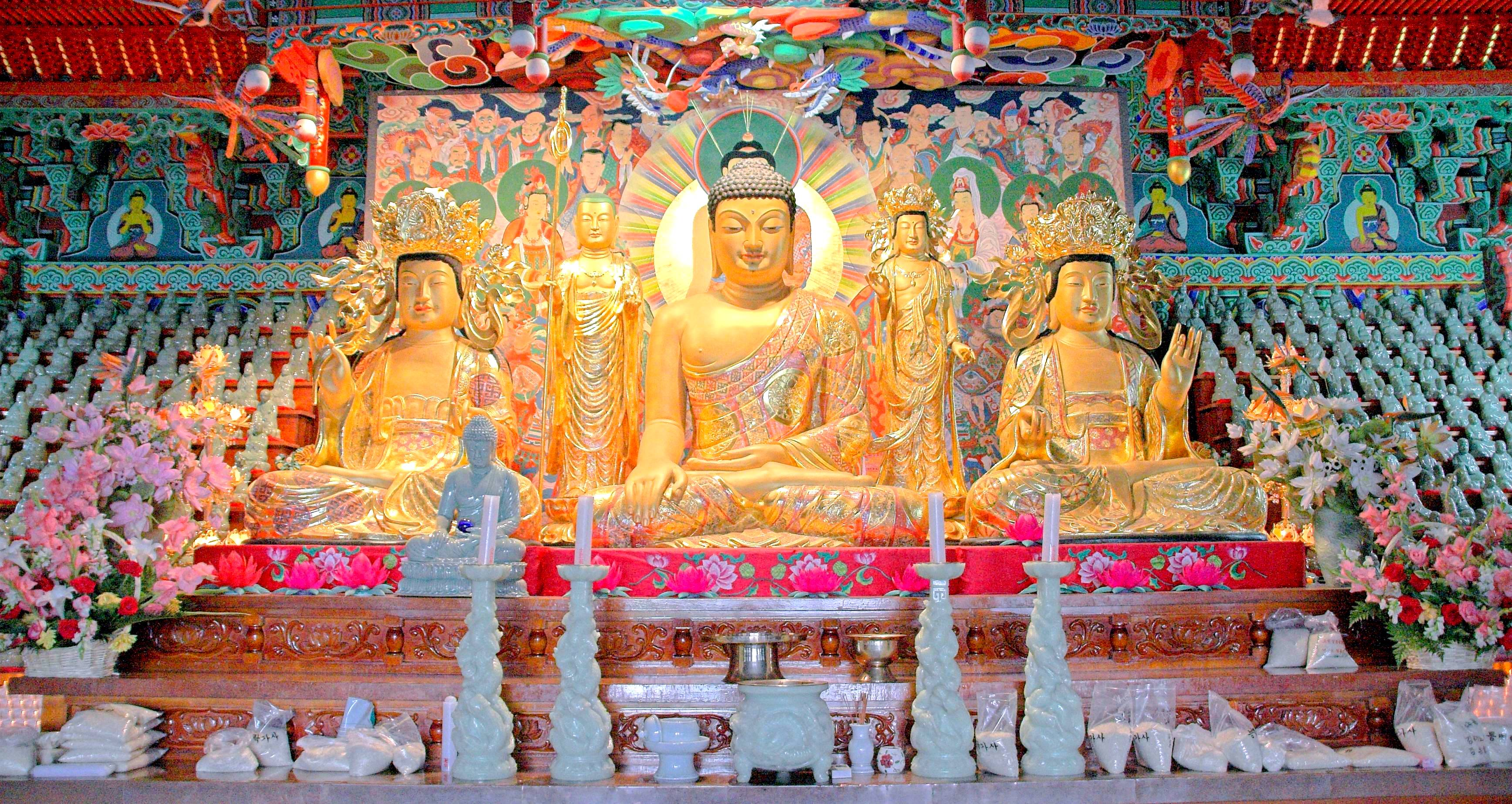 Gilt Buddha and 500 celadon arahant statues at Deungmyeongnakgasa temple, Gangneung city, Gangwon-do, South Korea